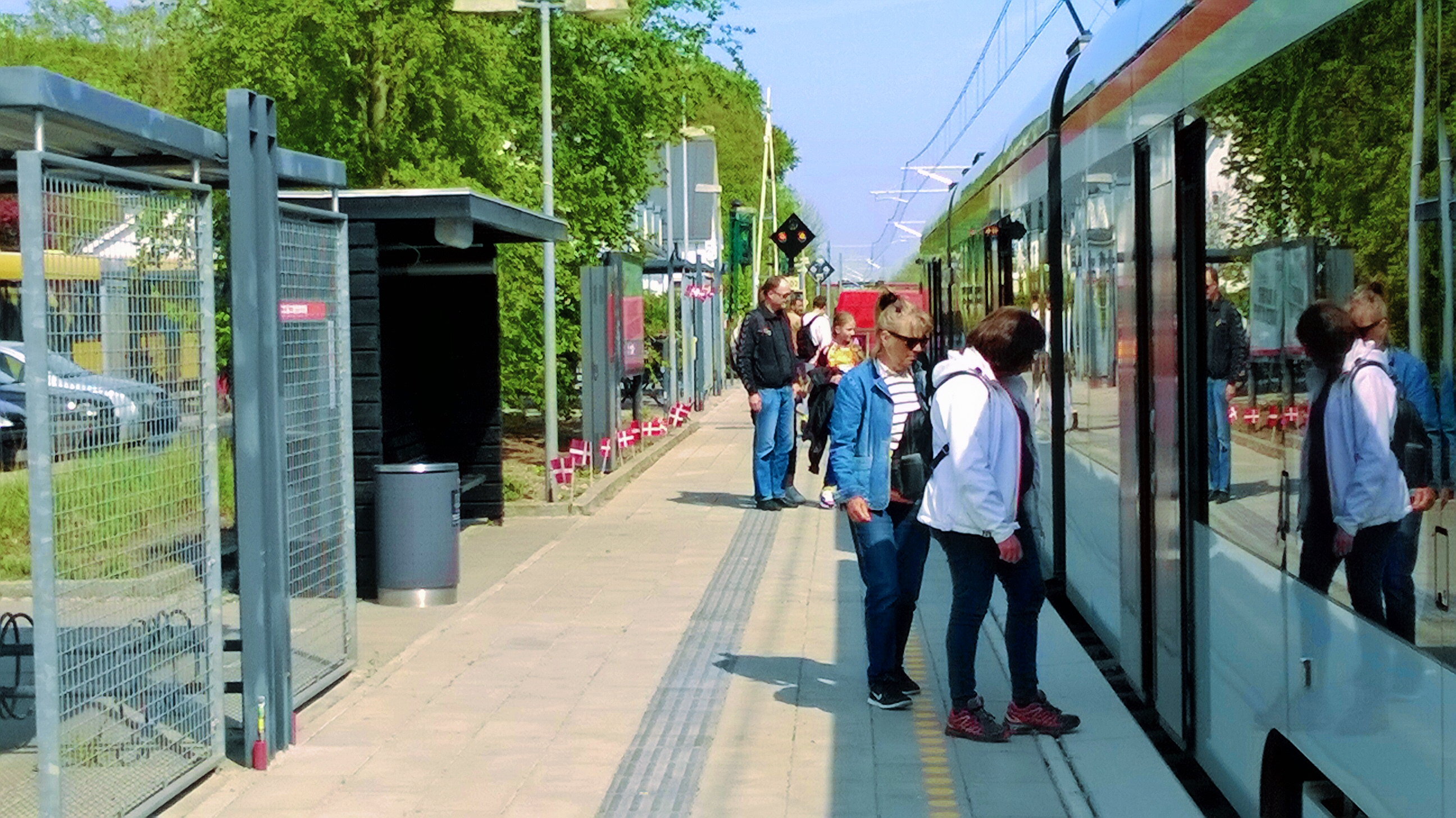 Aarhus Letbane, Hjortshøj Station